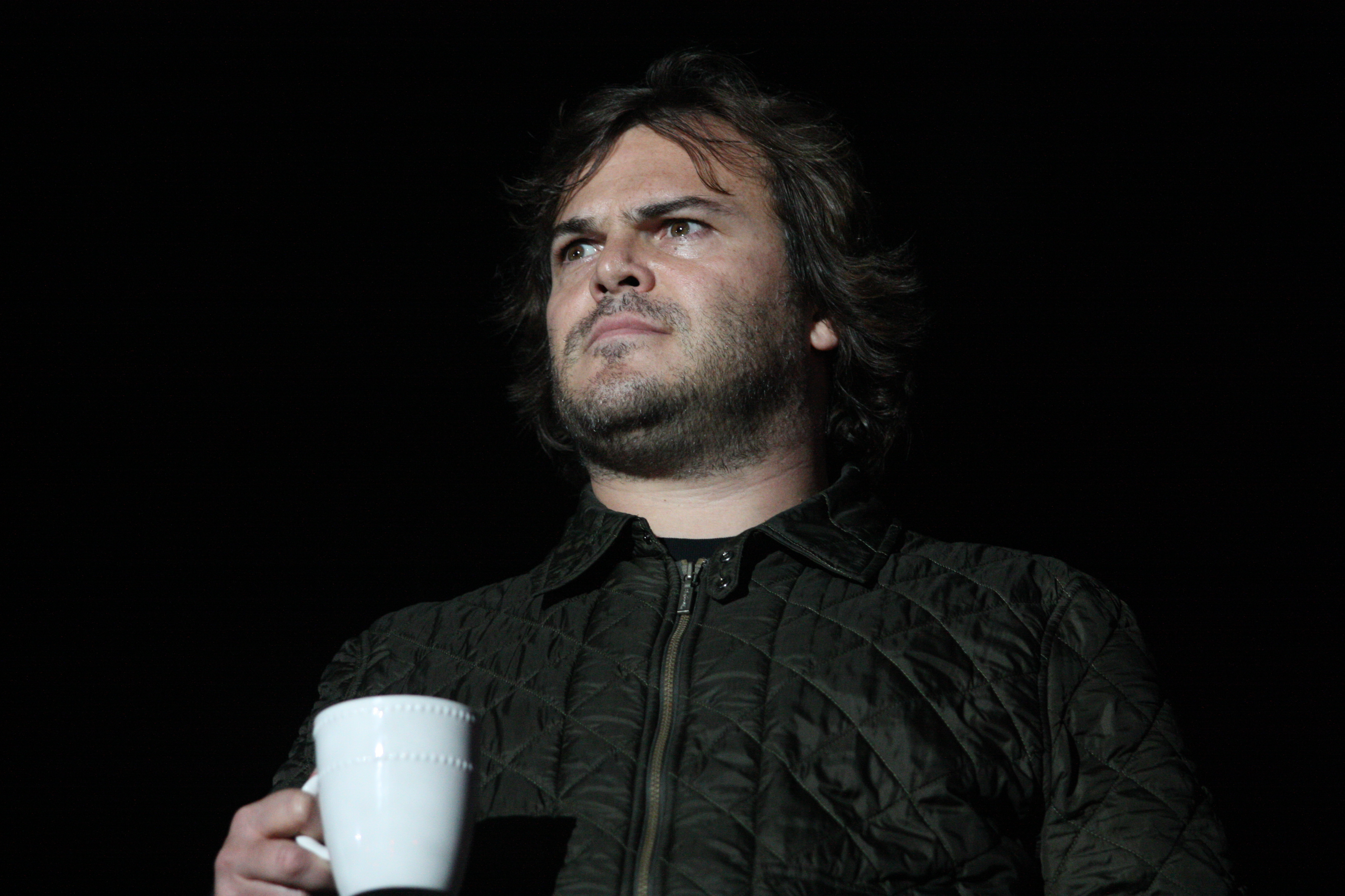 Jack Black